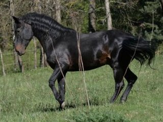 Kabardian stallion Ezop-Edil